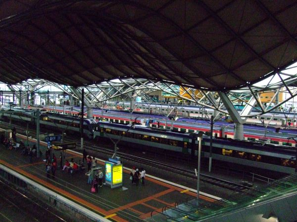 Souhtern Cross Station